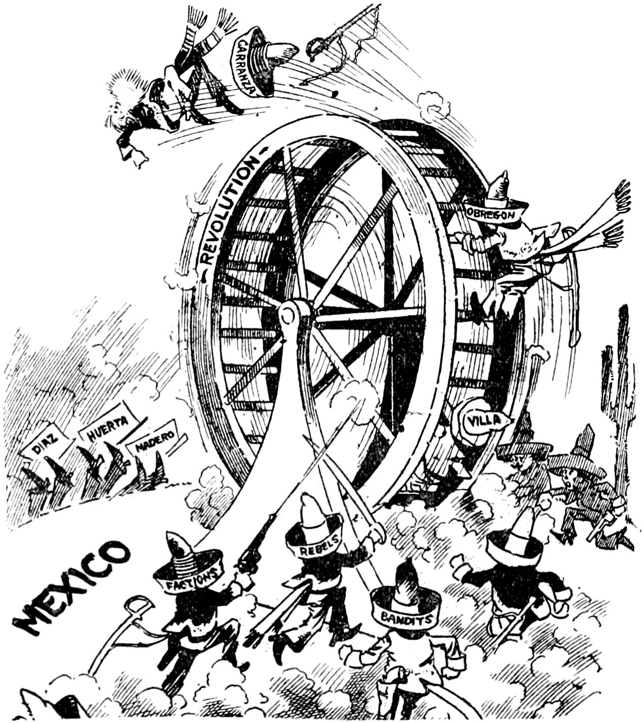 Political cartoon "Next!" for Dayton Daily News